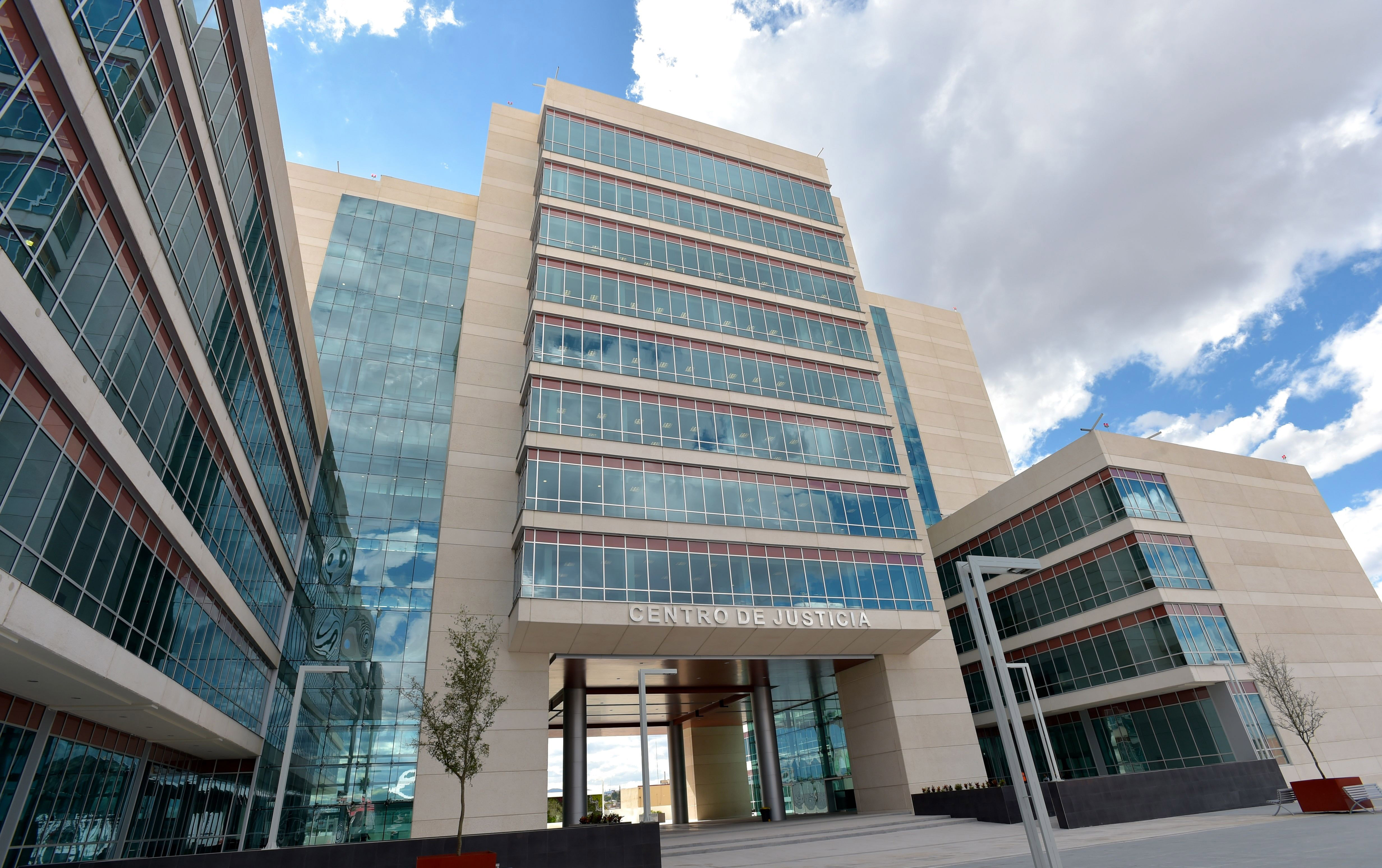 Clausura de la Conferencia Anual de Municipios de México 2015